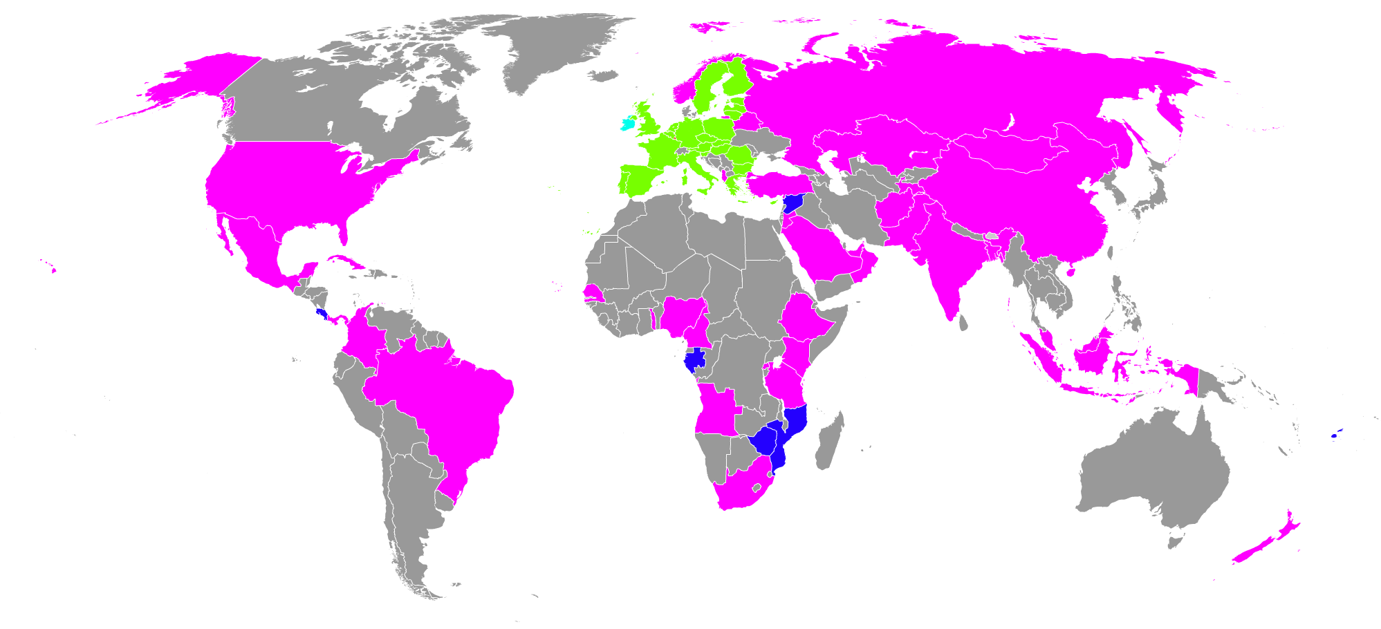 Members of the Cape Town Convention and protocols: purple: member countries (incl. aircraft protocol) green: european Union (incl aircraft protocol) Blue: member countries (no protocols) Red: member country (incl both protocols), ratification also covered by European Union Turquoise: member country (incl aircraft protocol), ratification also covered by European Union